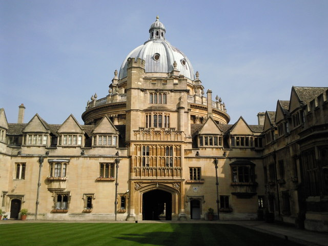 Brasenose College, Oxford Looking across the Old Quad to the gatehouse with the Radcliffe Camera looming behind.